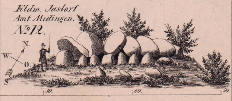 Megalithic tomb Jastorf 1, Sprockhoff-No 774